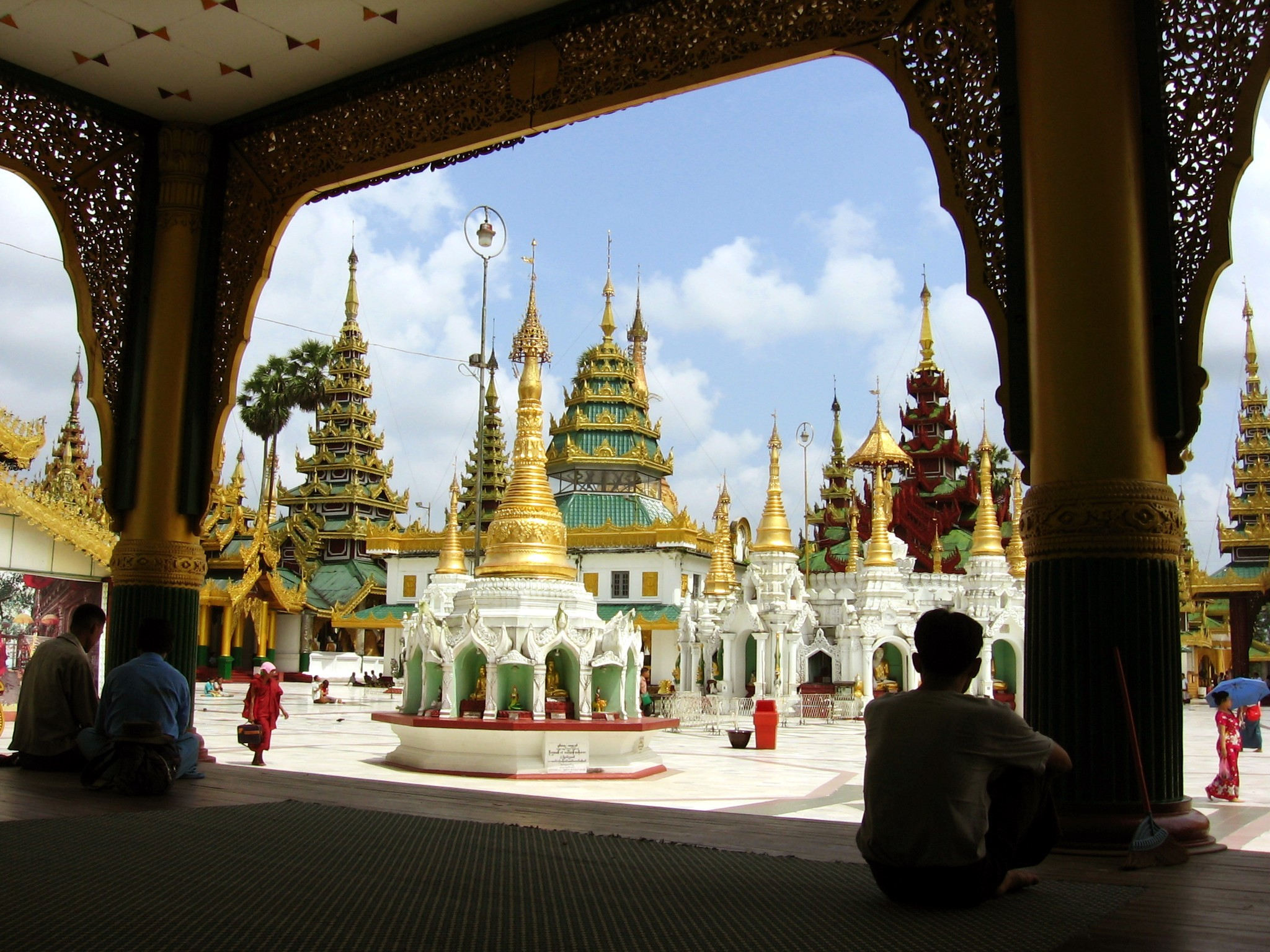 The Shwedagon Pagoda (officially titled Shwedagon Zedi Daw) is a 98-metre gilded stupa located in Yangon, Myanmar.